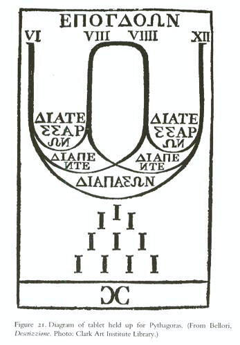 Diagram showing ΕΠΟΓΔΟΩΝ/Epogdoon [major second], ΔΙΑΤΕΣΣΑΡΩΝ/Diatessaron [perfect fourth], ΔΙΑΠΕΝΤΕ/Diapente [perfect fifth], and ΔΙΑΠΑΣΩΝ/Diapason [octave]. Translated version: File:Epogdoon translation.png.